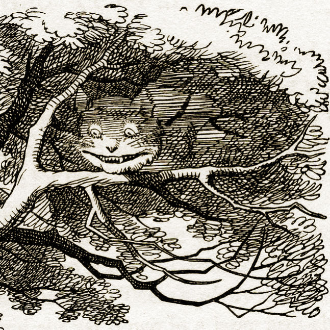 The cheshire cat vanishing (detail) in Lewis Carroll's Alice in Wonderland drawn by John Tenniel (1820-1914)